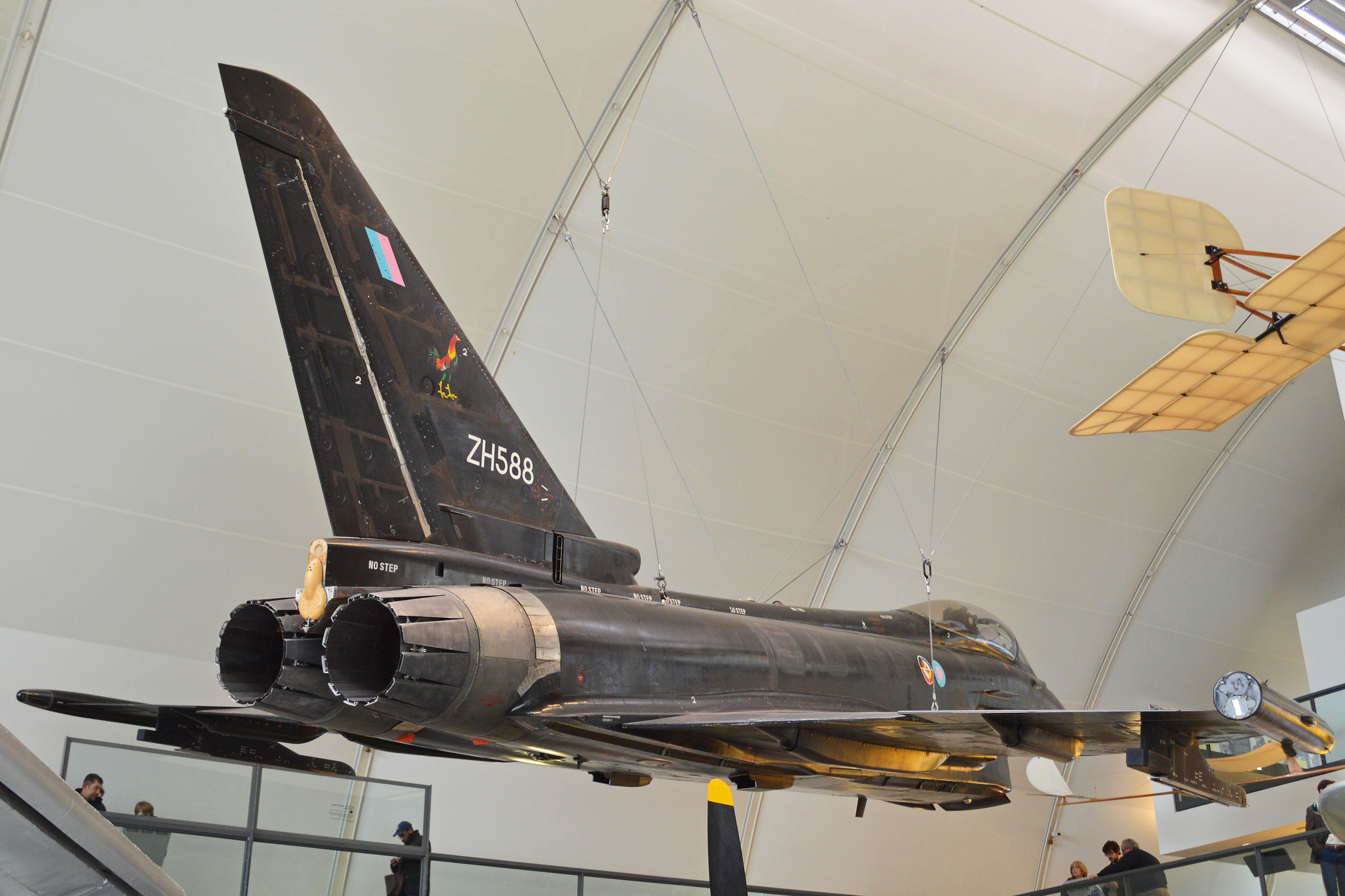 c/n DA-2. Built 1993, first flight 6th April 1994. First British built Typhoon. Flew only as a trials aircraft, initially with RB199 engines (as in Tornado) but later with EF200s. Last flight 29th January 2007. Total flying time 614hrs 44mins. Arrived at Hendon in January 2008 and suspended in the Milestone of Flight Hall, replacing the plastic mock-up previously on display. RAF Museum, Hendon, London, UK. 22-3-2015